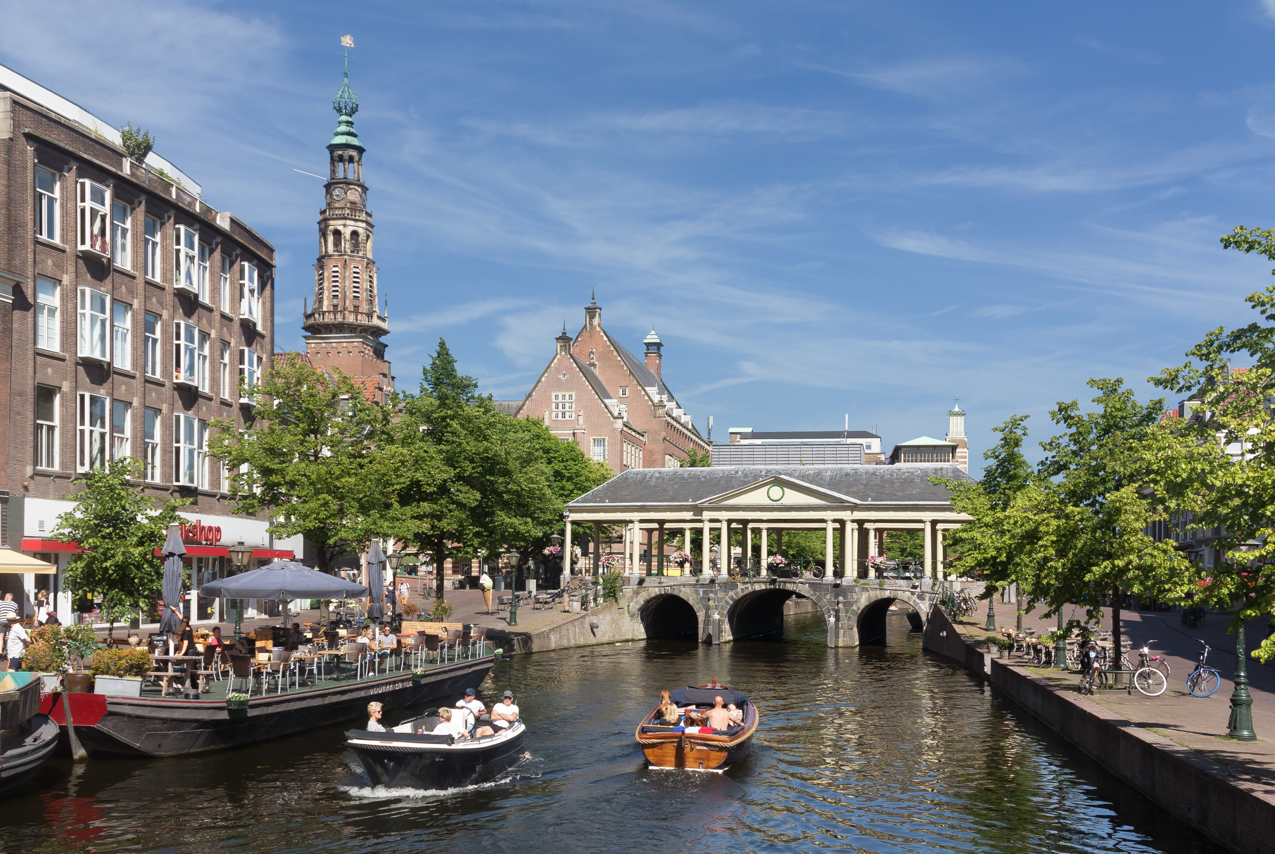 Leiden, townhall and bridge (de Koornbrug)